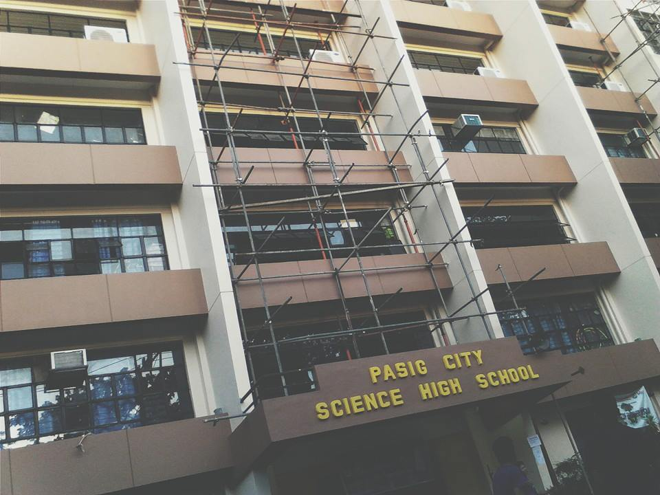 The school facade